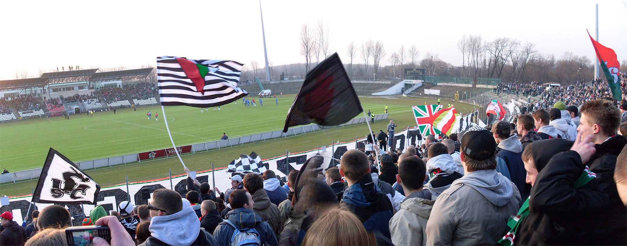 Connected two photos taken on 2009, March 14 during the match between Zaglebie Sosnowiec and Rakow Czestochowa.